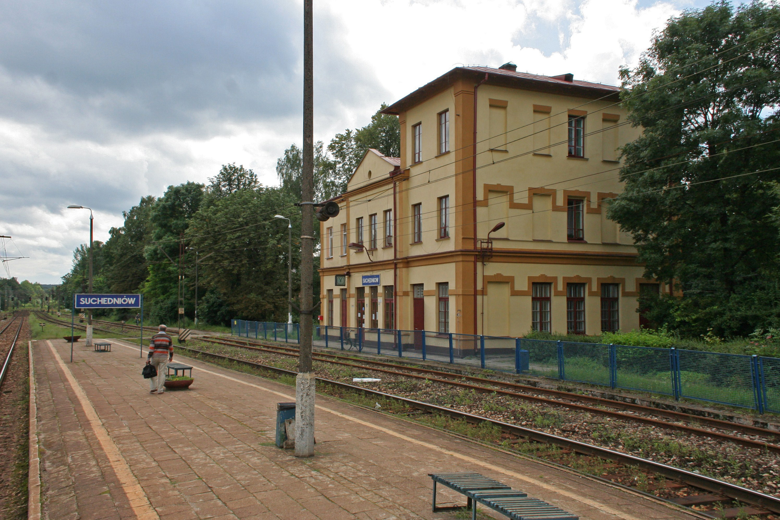 Train station in Suchedniów.